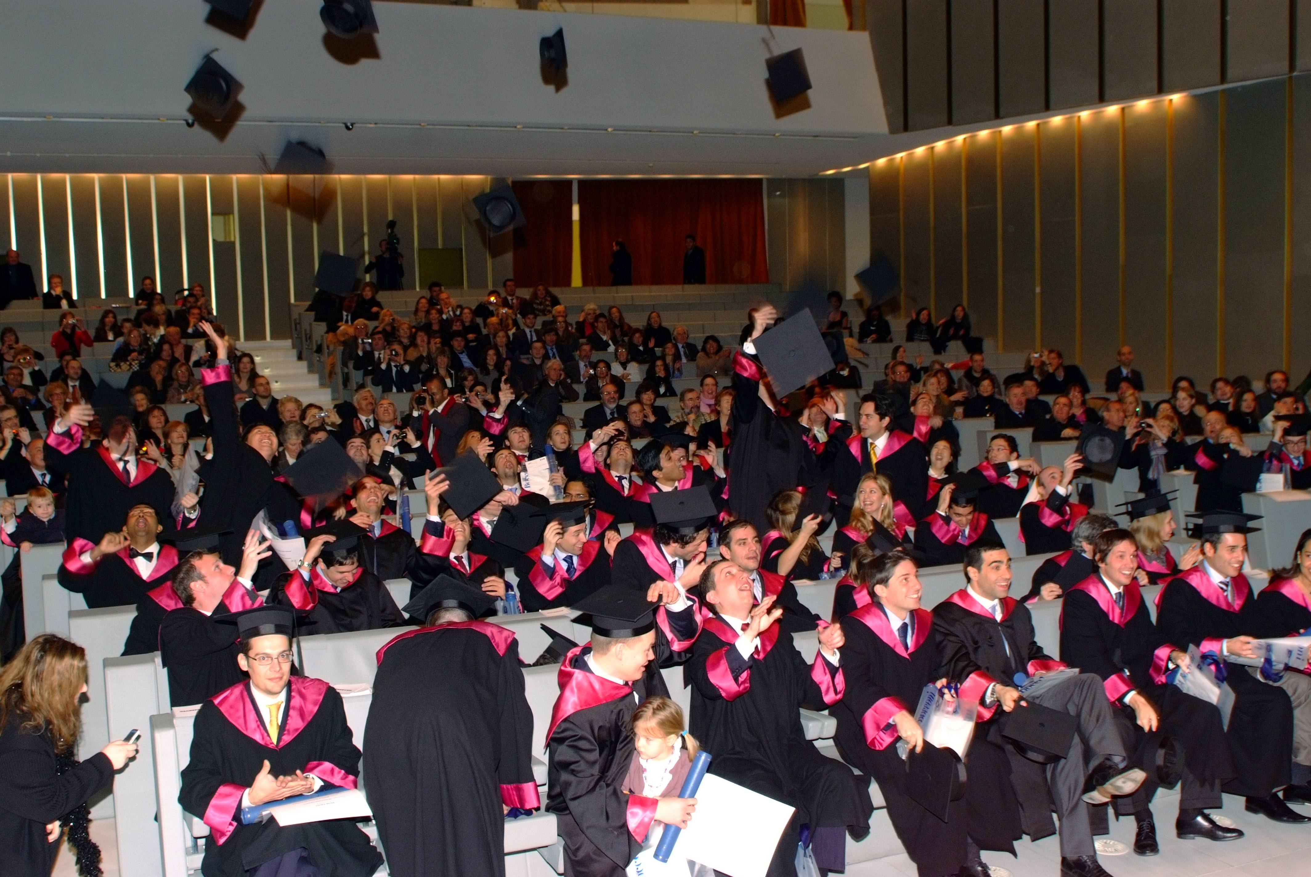 SDA Bocconi School of Management: Commencement Day Full-Time MBA Class 2009